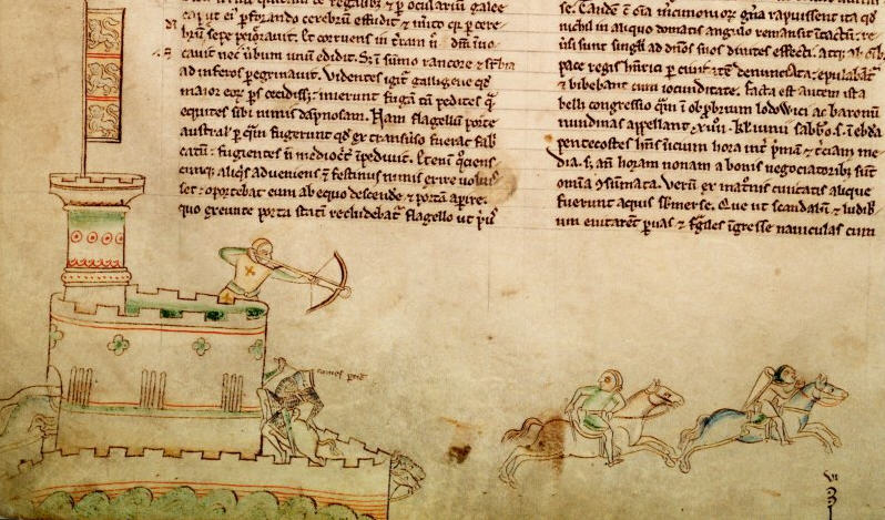 A 13th-century depiction of the Second Battle of Lincoln, which occurred at Lincoln Castle on 20 May 1217 during the First Barons' War between the forces of the future Louis VIII of France and those of King Henry III of England. Louis' forces were attacked by a relief force under the command of William Marshal, 1st Earl of Pembroke. Thomas du Perche, the Comte de la Perche, who was commanding the French troops, was killed; the illustration depicts his death. Perche had come to England to try and recover the honour of Perche which had been lost in 1204 by his mother (a niece of John, King of England) – this included Newbury and Shrivenham in Berkshire, Toddington in Buckinghamshire, and Haughley in Suffolk. This heavy defeat led to Louis being expelled from his base in the southeast of England.